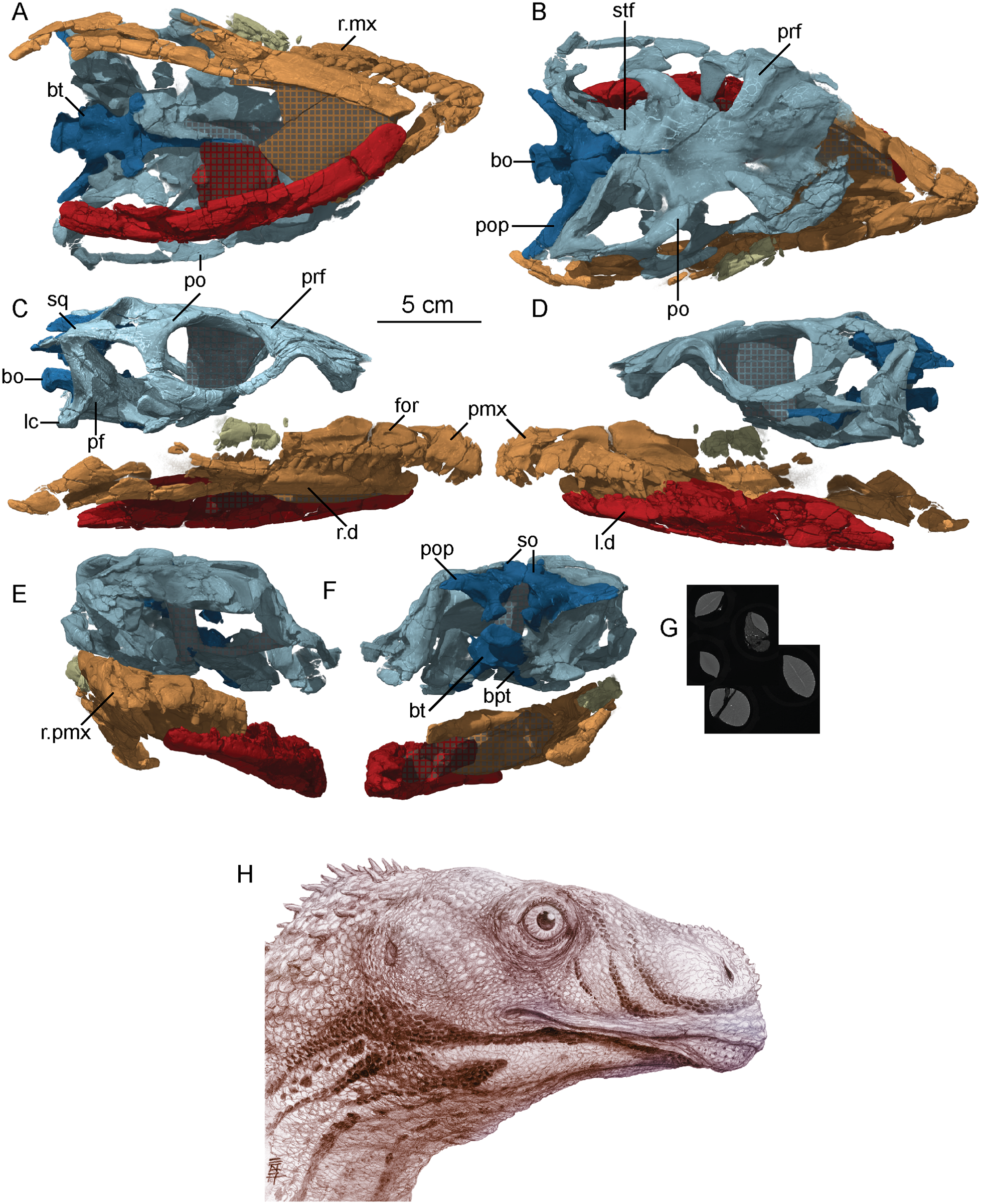 Figure from the scientific paper Marsh AD, Rowe TB (2018) Anatomy and systematics of the sauropodomorph Sarahsaurus aurifontanalis from the Early Jurassic Kayenta Formation. PLoS ONE 13(10): e0204007.